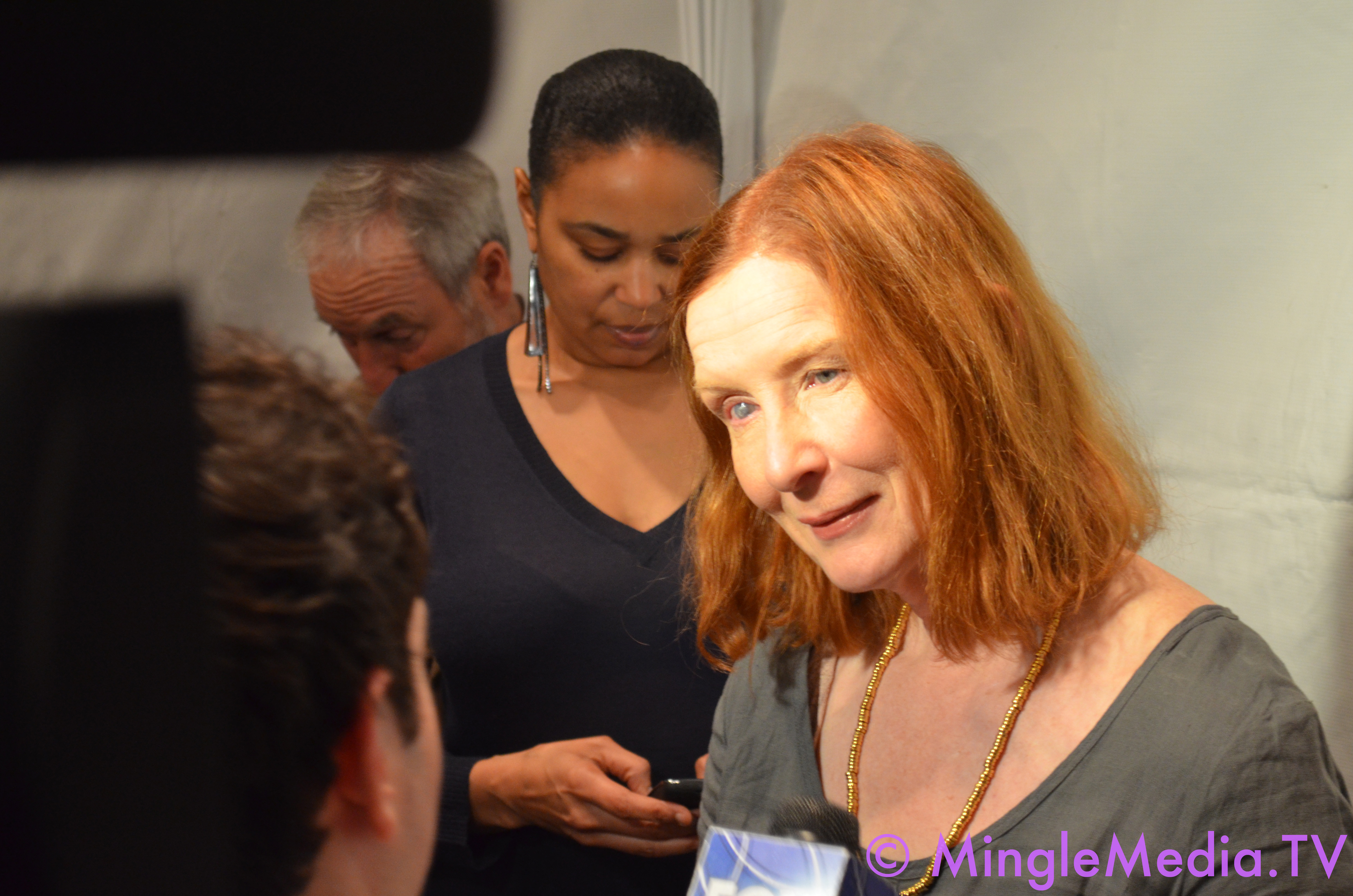 Frances Conroy 2012